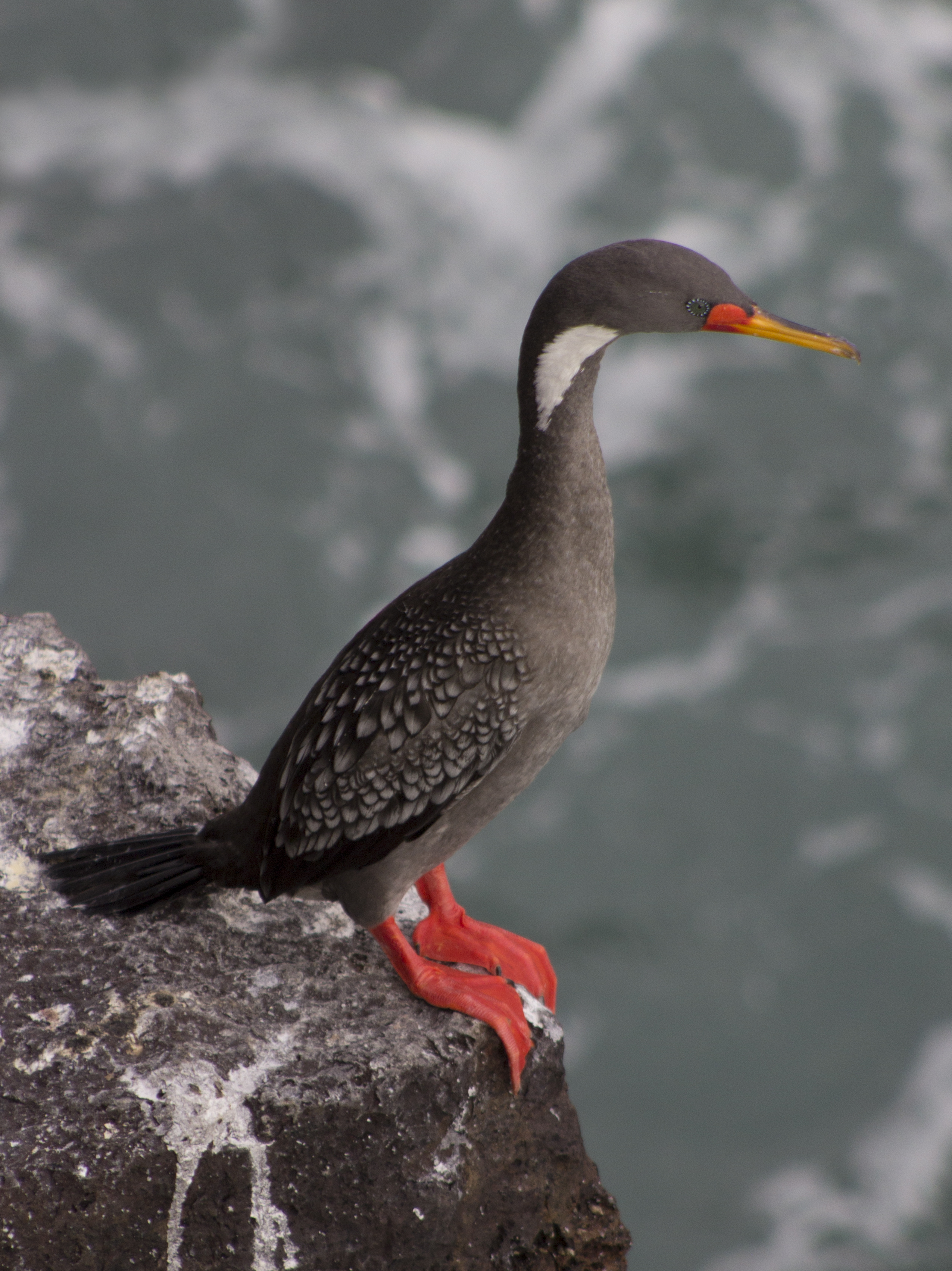 Phalacrocorax gaimardi